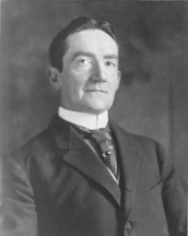 Jonathan Bourne Jr.